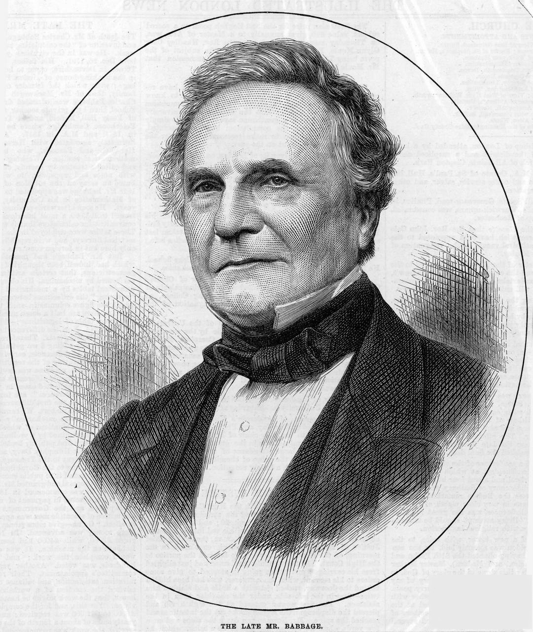 Obituary portrait of Charles Babbage (1791-1871) published in Illustrated London News on 4 November 1871. The caption is "The late Mr. Babbage." This portrait was derived from a photograph of Babbage taken at the Fourth International Statistical Congress which took place in London in July 1860.[1] Hook, Dinan (2002). Origins of cyberspace: a library on the history of computing, networking, and telecommunications. Norman Publishing. pp. 161, 165, ISBN 0930405854